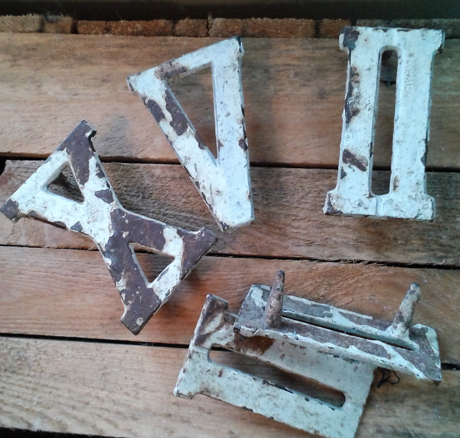 A group of old numbers for the game of clock golf: metal numbers with spikes on the back, part of a set of 12 to be arranged on an area of grass around one hole, for use as a 12-hole putting game.